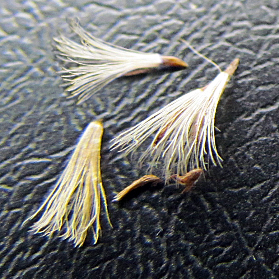 Symphyotrichum dumosum cypselae